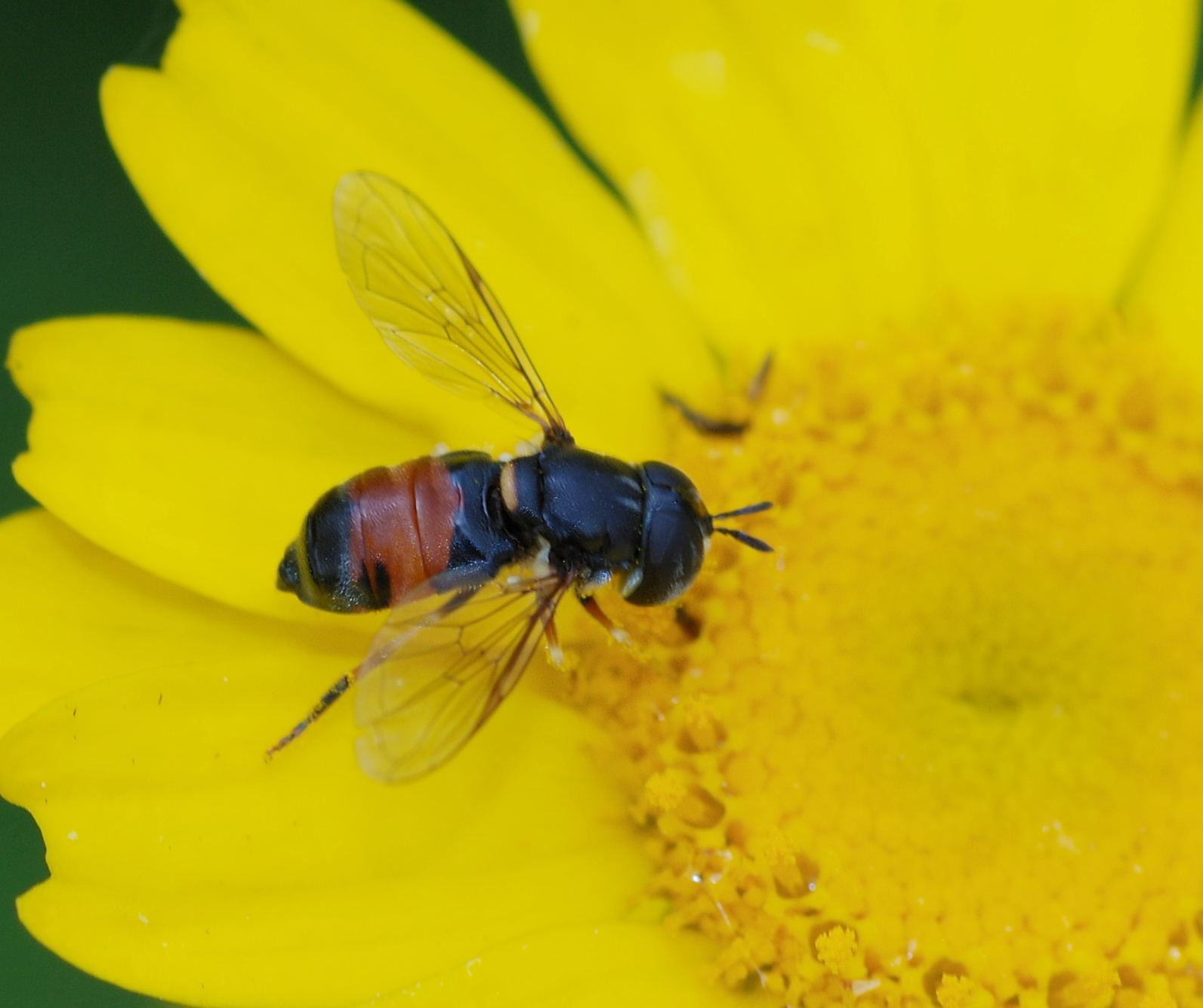 Hoverfly on flower (Parargus sp.)